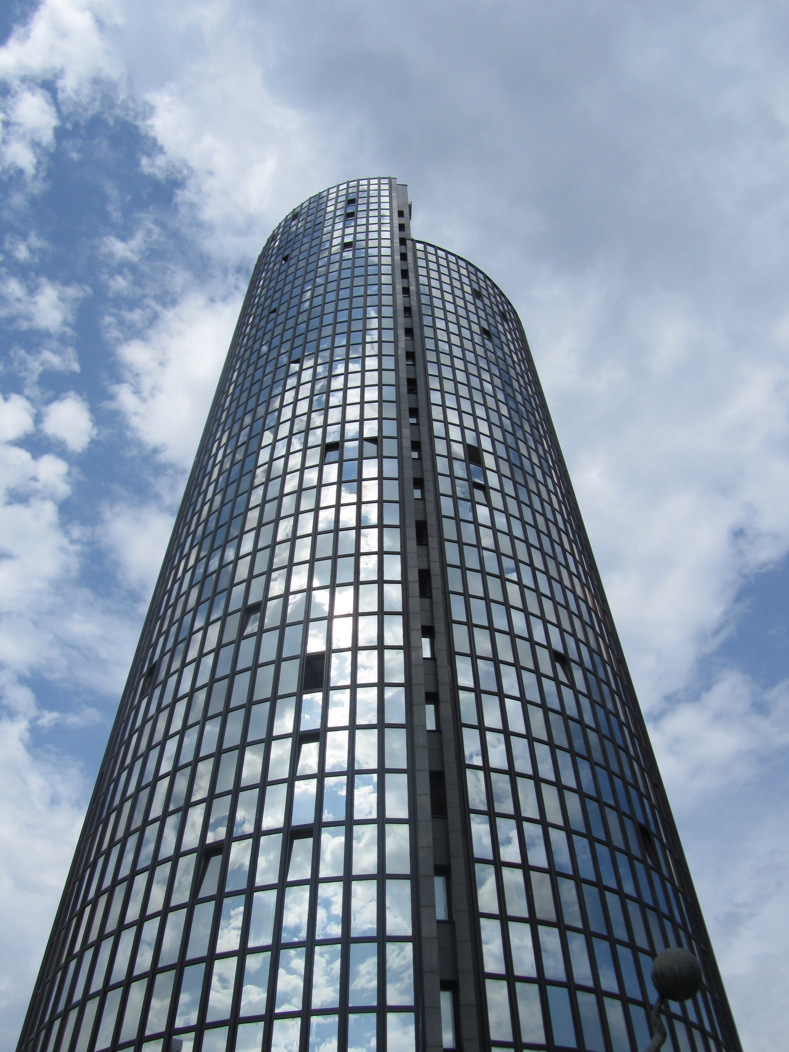 Cibona Tower in August 2012.